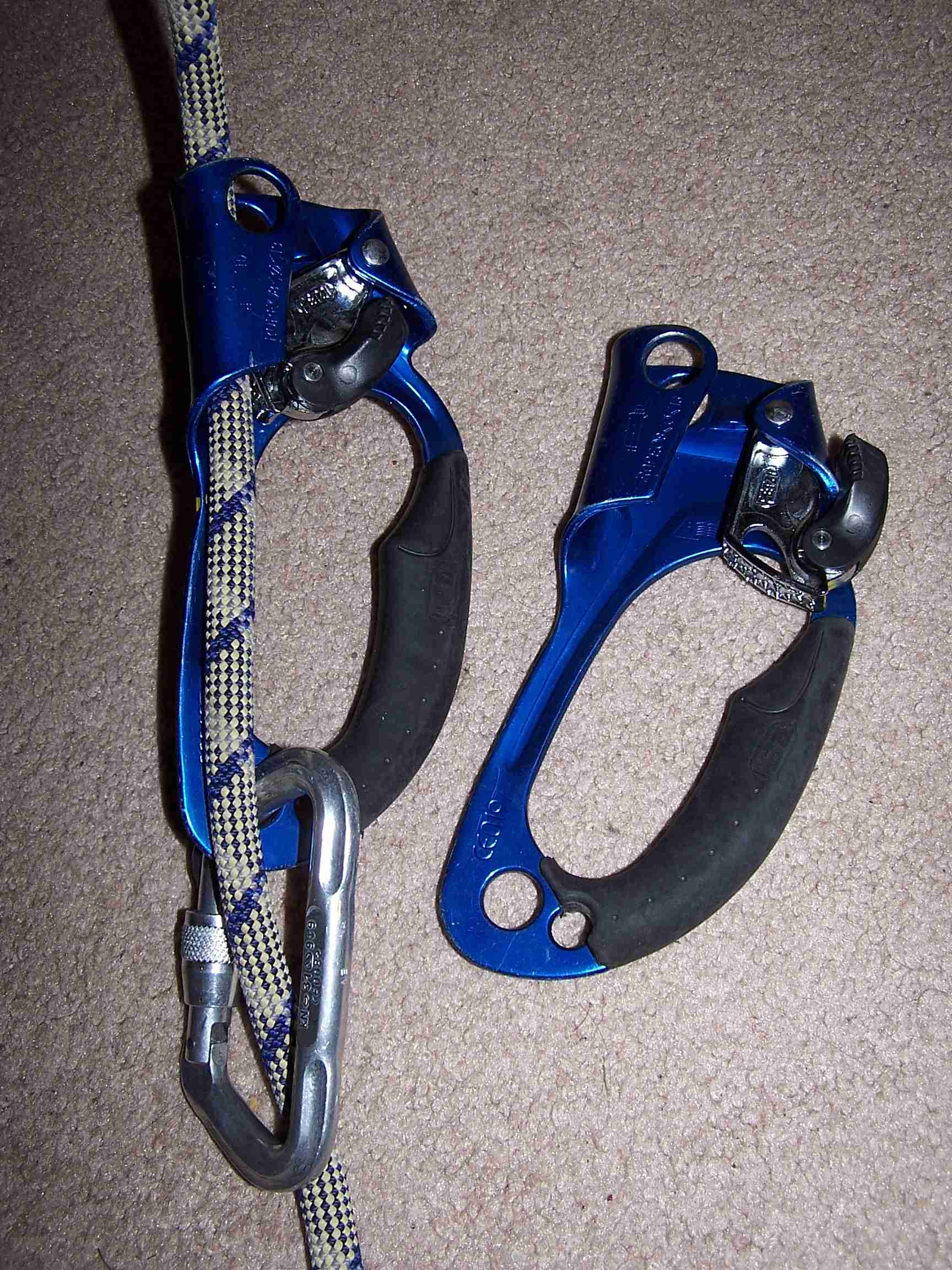 Climbing ascender, Petzl ascension